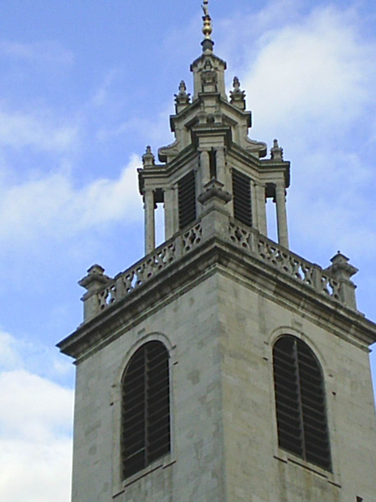 St James Garlickhythe, London, spire